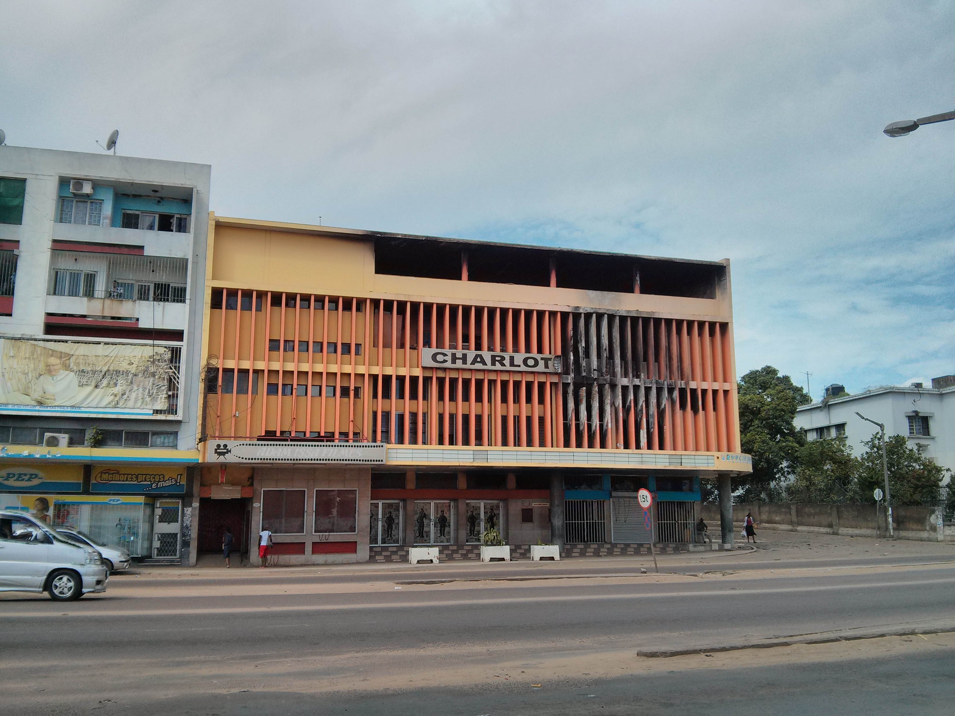 Cinema Charlot in Maputo, Mozambique